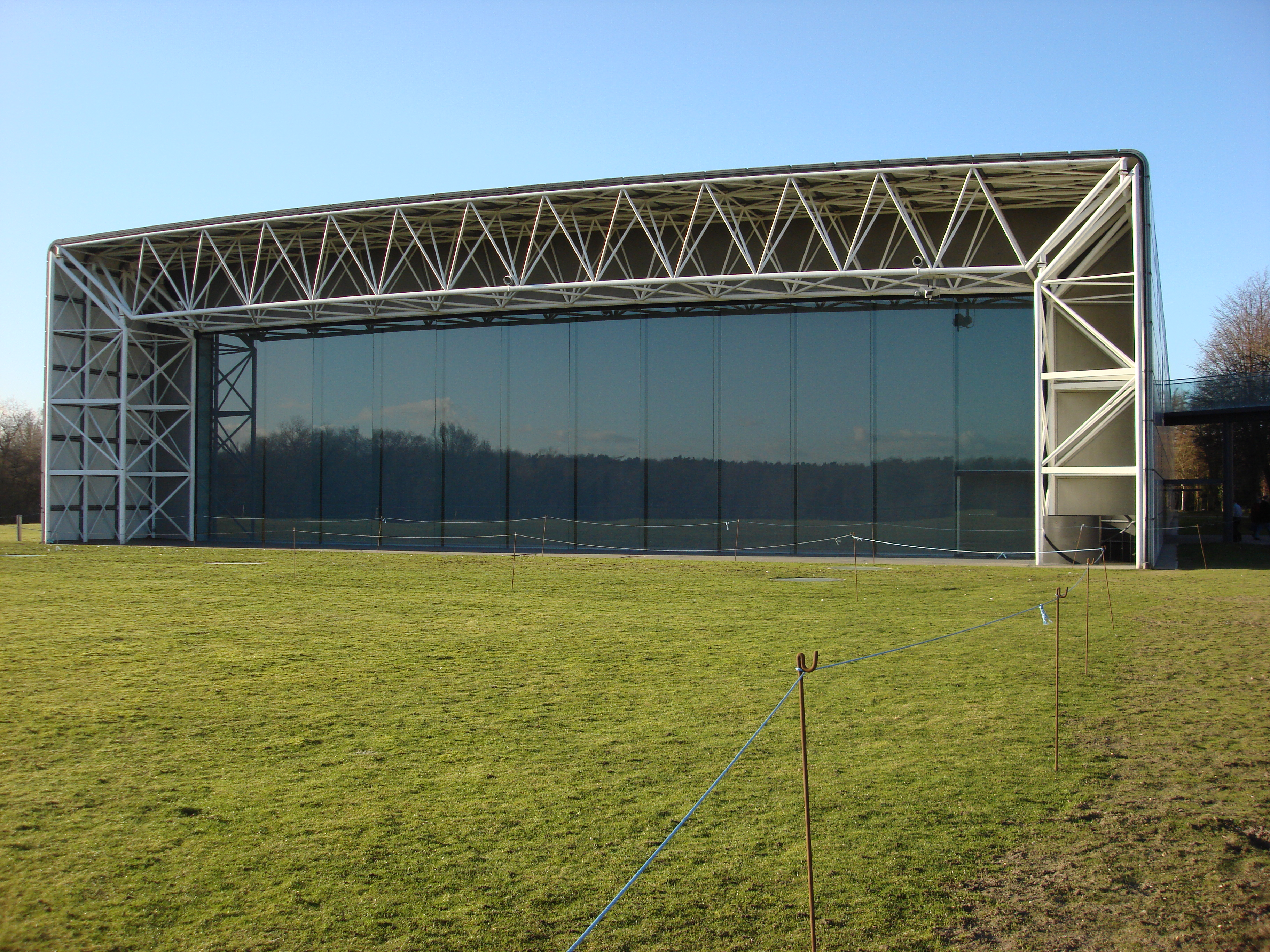 Housed in one of the first major public buildings to be designed by Norman Foster, the Sainsbury Centre for Visual Arts is an art gallery and museum located on the campus of the University of East Anglia, Norwich. In 1973 Sir Robert and Lady Lisa Sainsbury donated to the university their collection of over 300 artworks and objects, which they had been accumulating since the 1930s. The collection has since increased in size to several thousand works spanning over 5000 years of human endeavor, including pieces by Jacob Epstein, Henry Moore (numerous sculptures can found dotted around the grounds of the university), Alberto Giacometti, Francis Bacon and John Davies, alongside art from Africa (including a 'Fang Reliquary Head' from Gabon and the Nigerian 'Head of an Oba'), Asia, North and South America, the Pacific region, medieval Europe and the ancient Mediterranean.